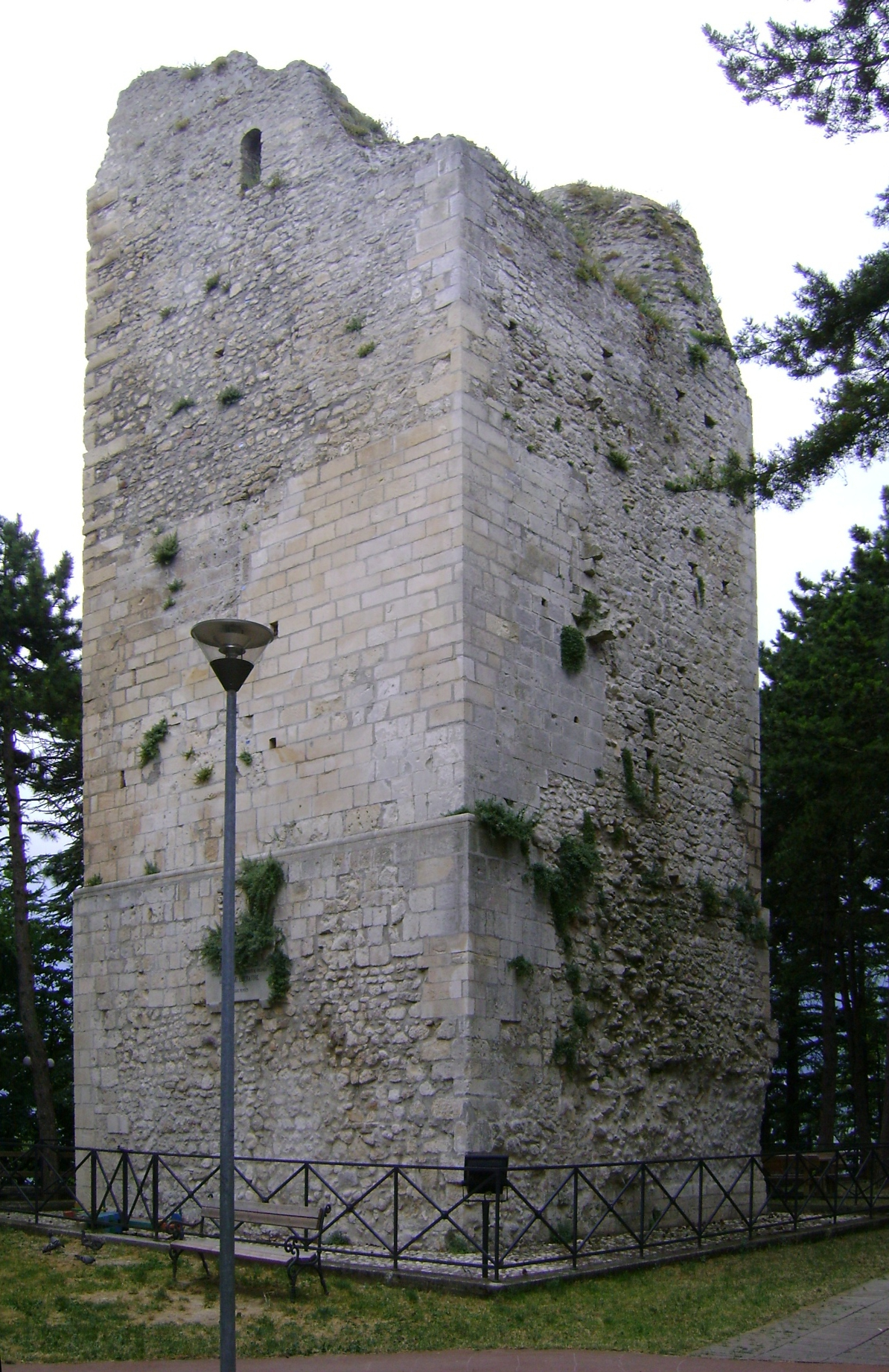 Torrione Orsini, Guardiagrele, province of Chieti, Abruzzo